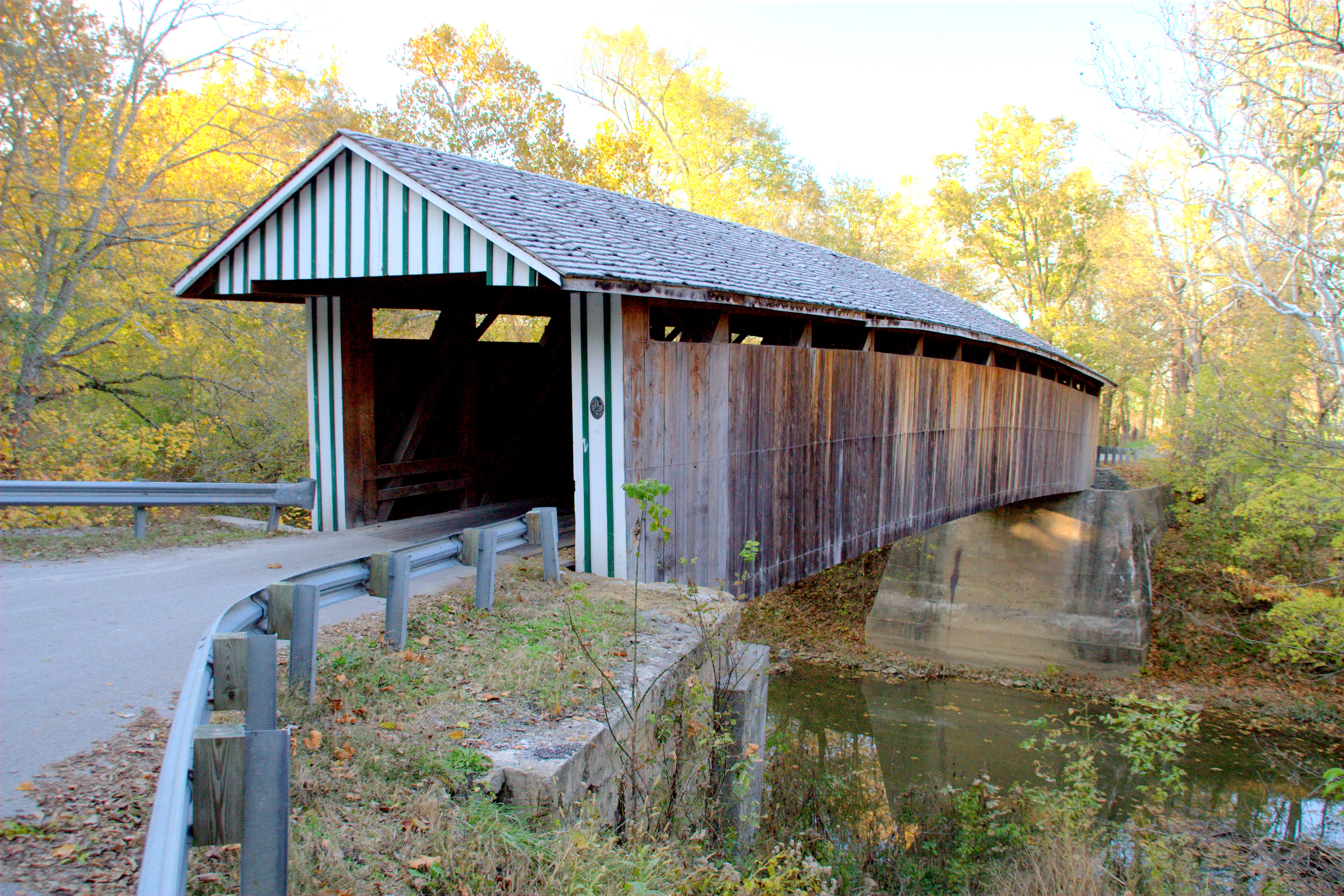 Colville Bridge in Bourbon County, Kentucky near Millersburg.